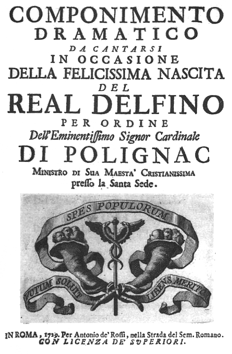 Leonardo Vinci - La contesa dei numi - titlepage of the libretto - Rom 1729